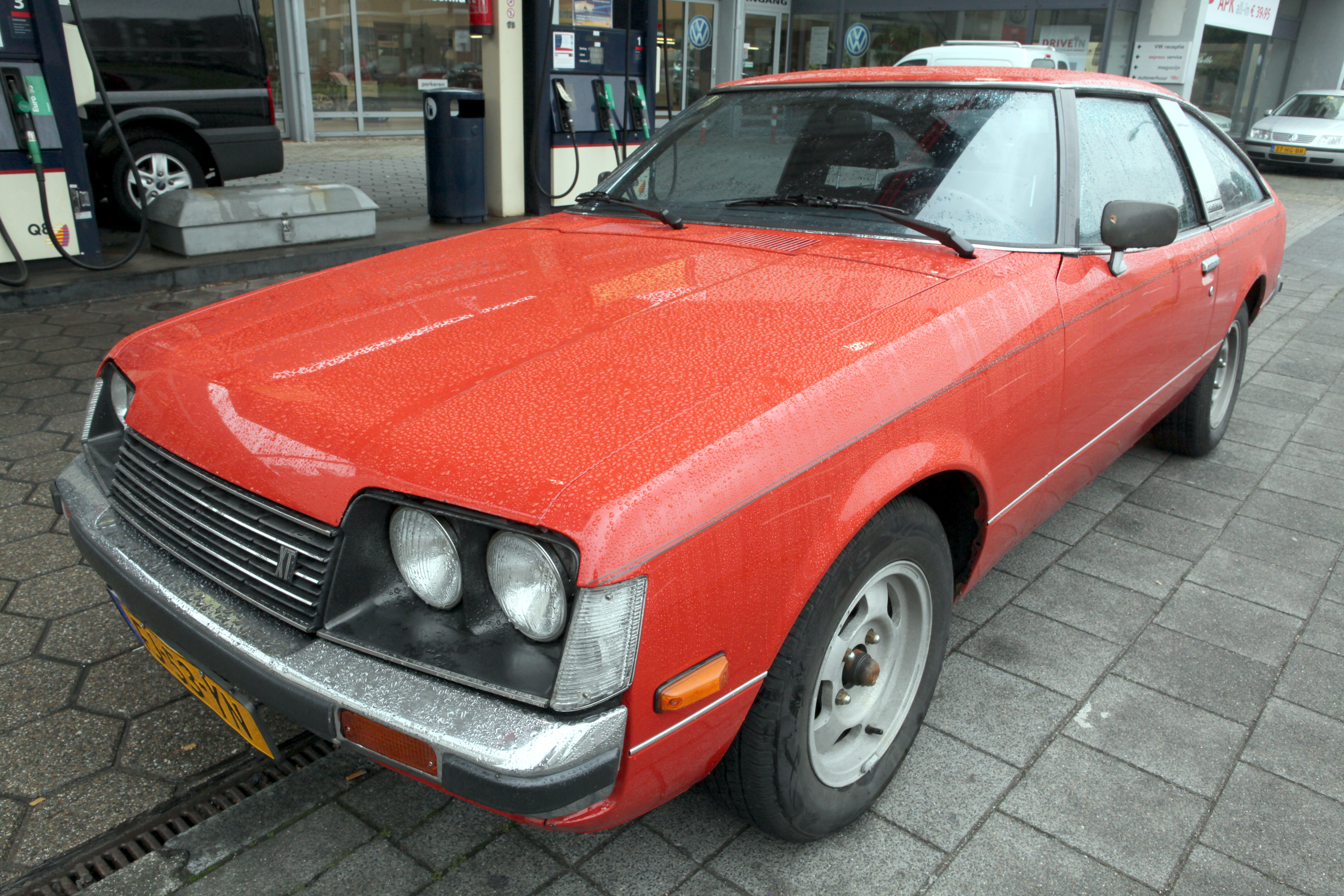 Toyota Celica 2000 Liftback XT